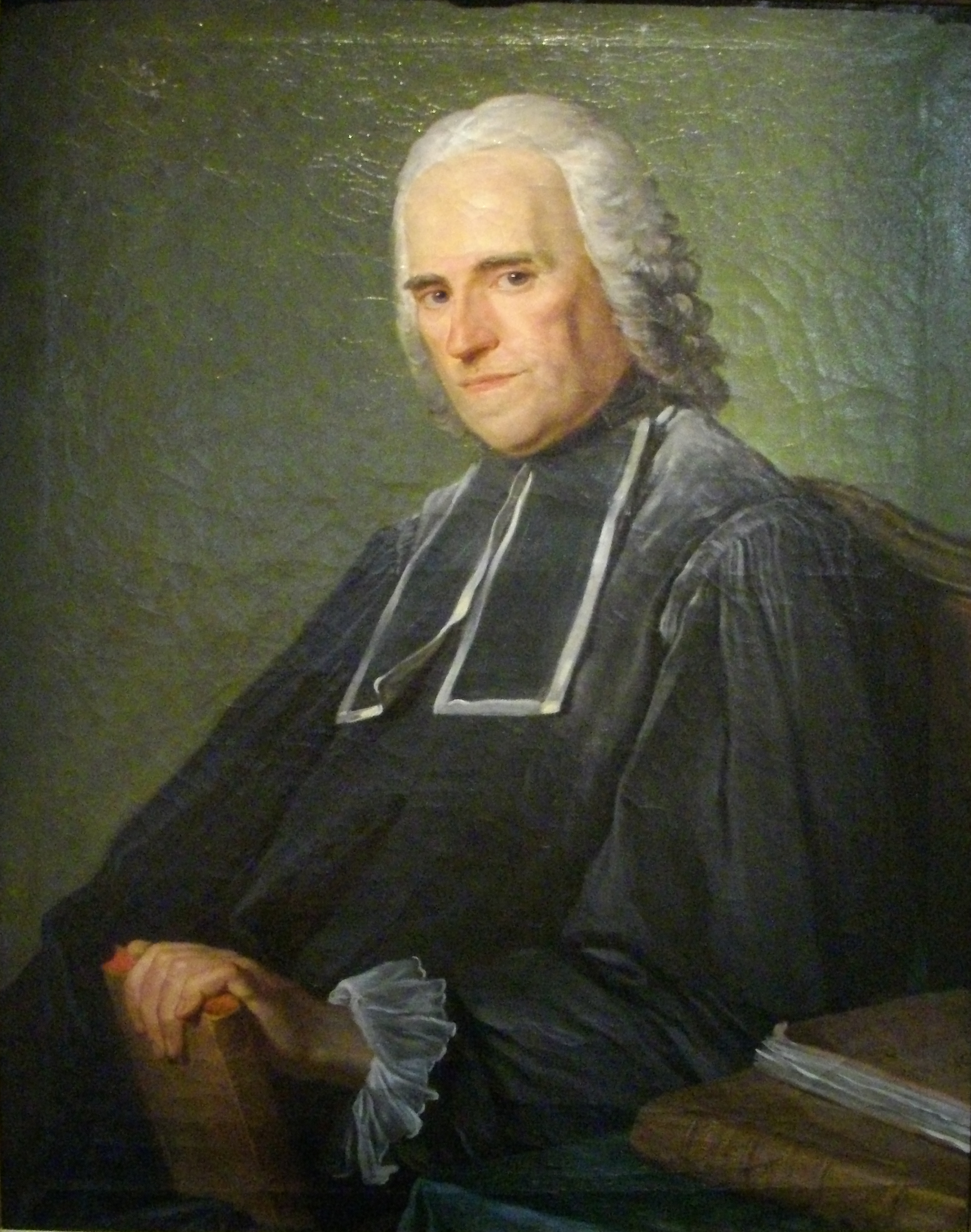 Fine arts museums of Orléans (Loiret, France) : Simon-Bernard Lenoir, Portrait of the jurist Robert Joseph Pothier (1699-1772), 1760s